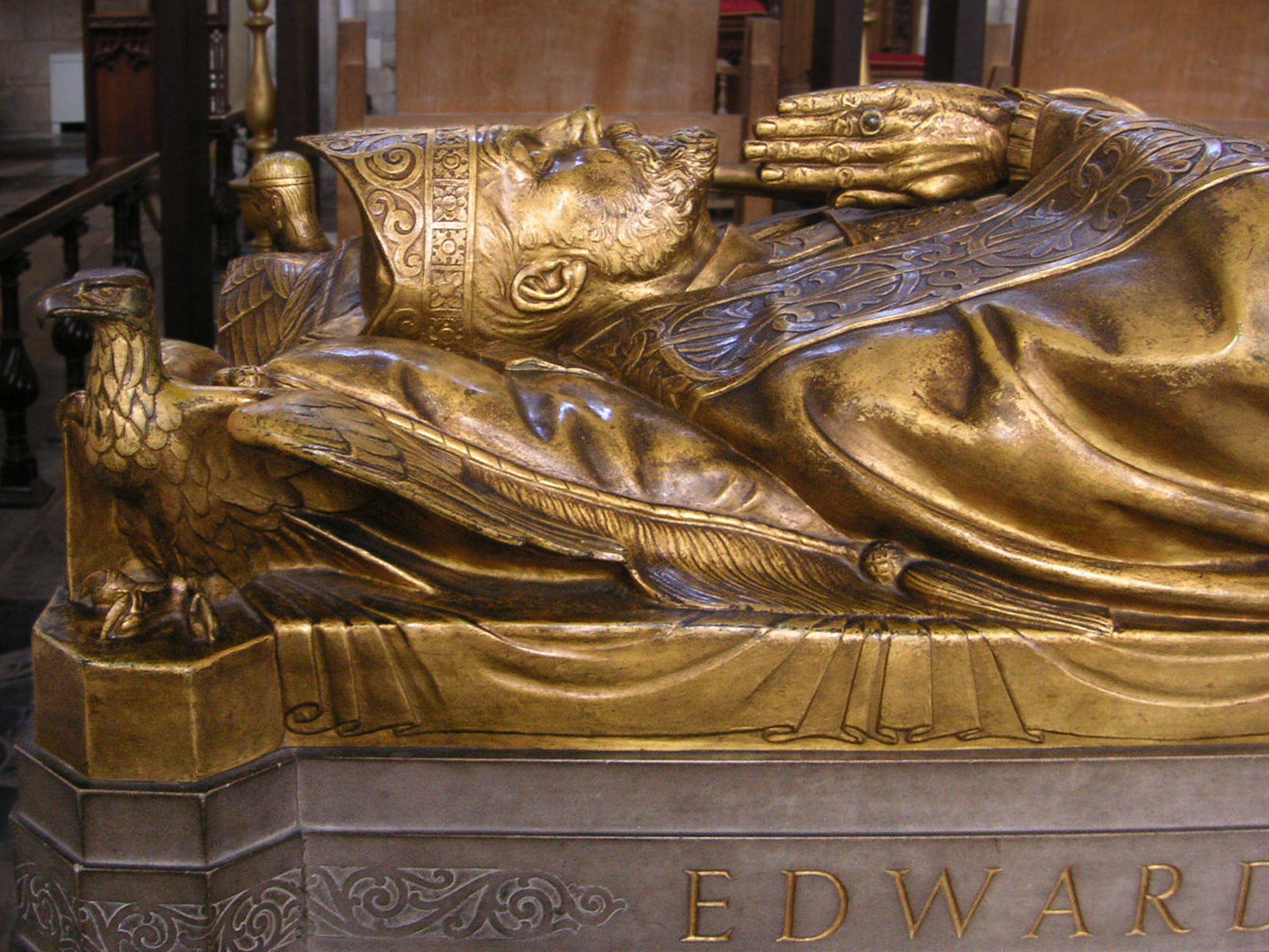 Southwark Cathedral: The memorial tomb of Bishop Edward Stuart Talbot